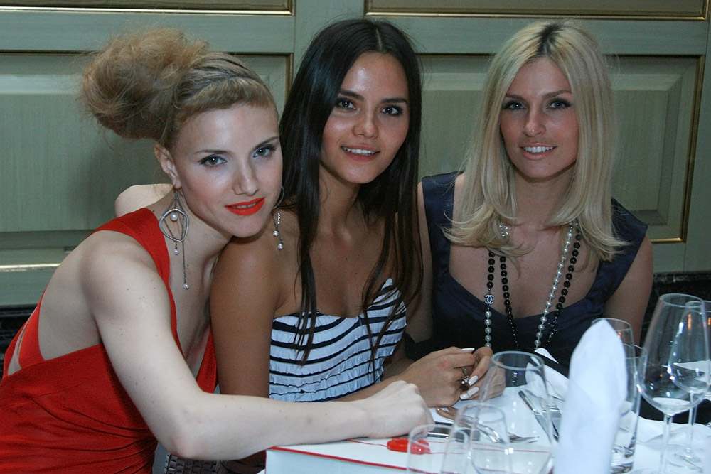 Fabrika. Russian girls-band